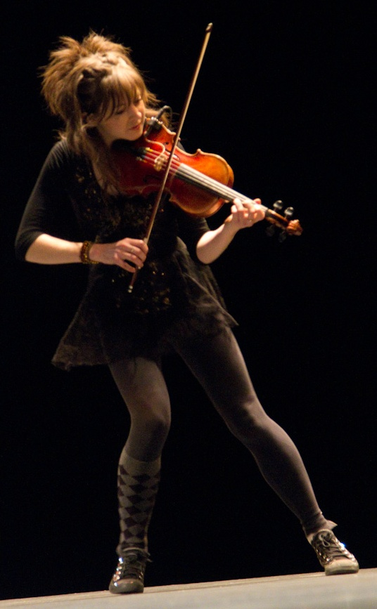 Lindsey Stirling is an American violinist, performance artist, and composer. That's at the TEDxBerkeley.